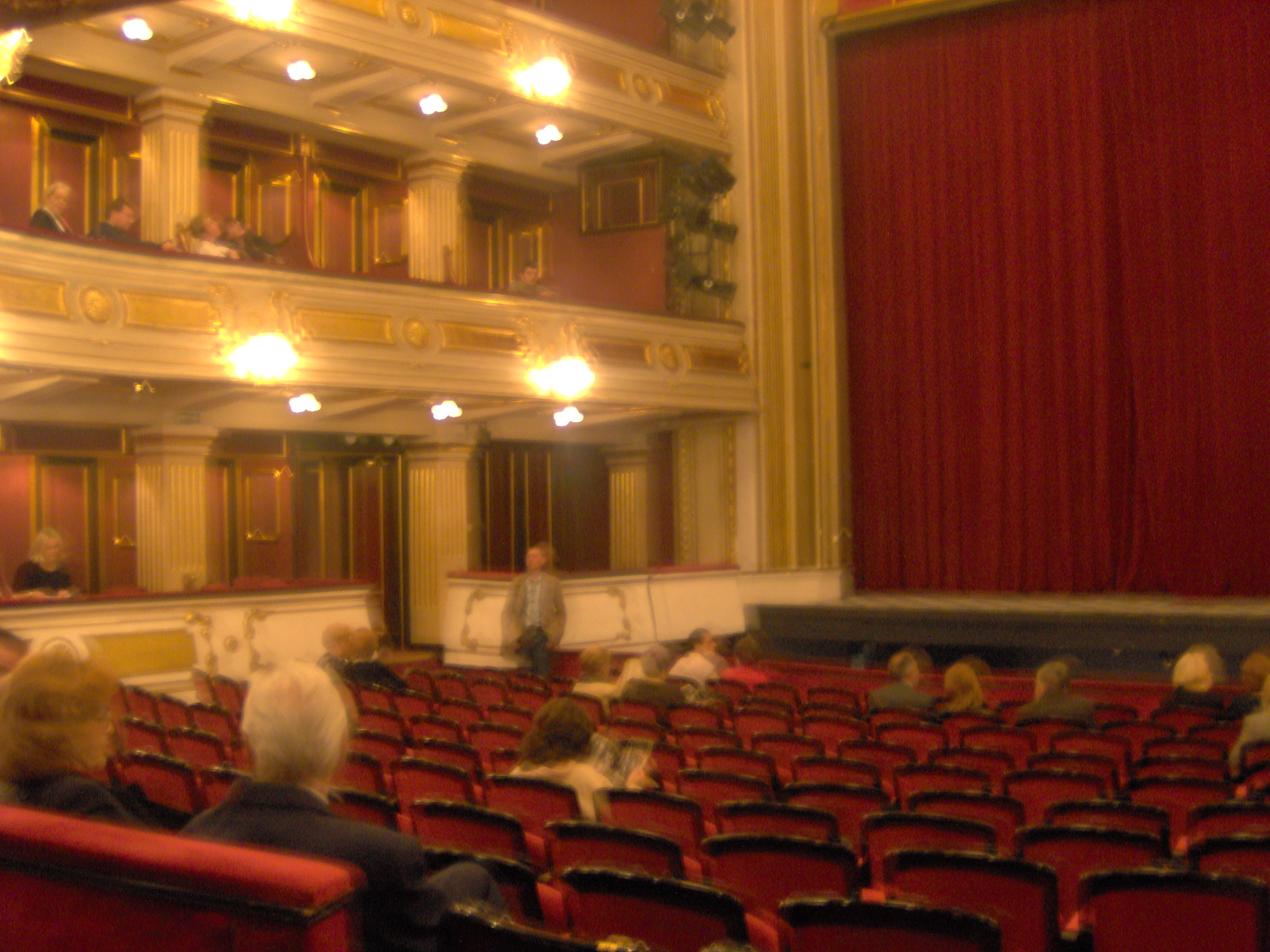 Great hall at the National Theatre in Belgrade, Serbia/La Grande salle du Théâtre national de Belgrade, Serbie